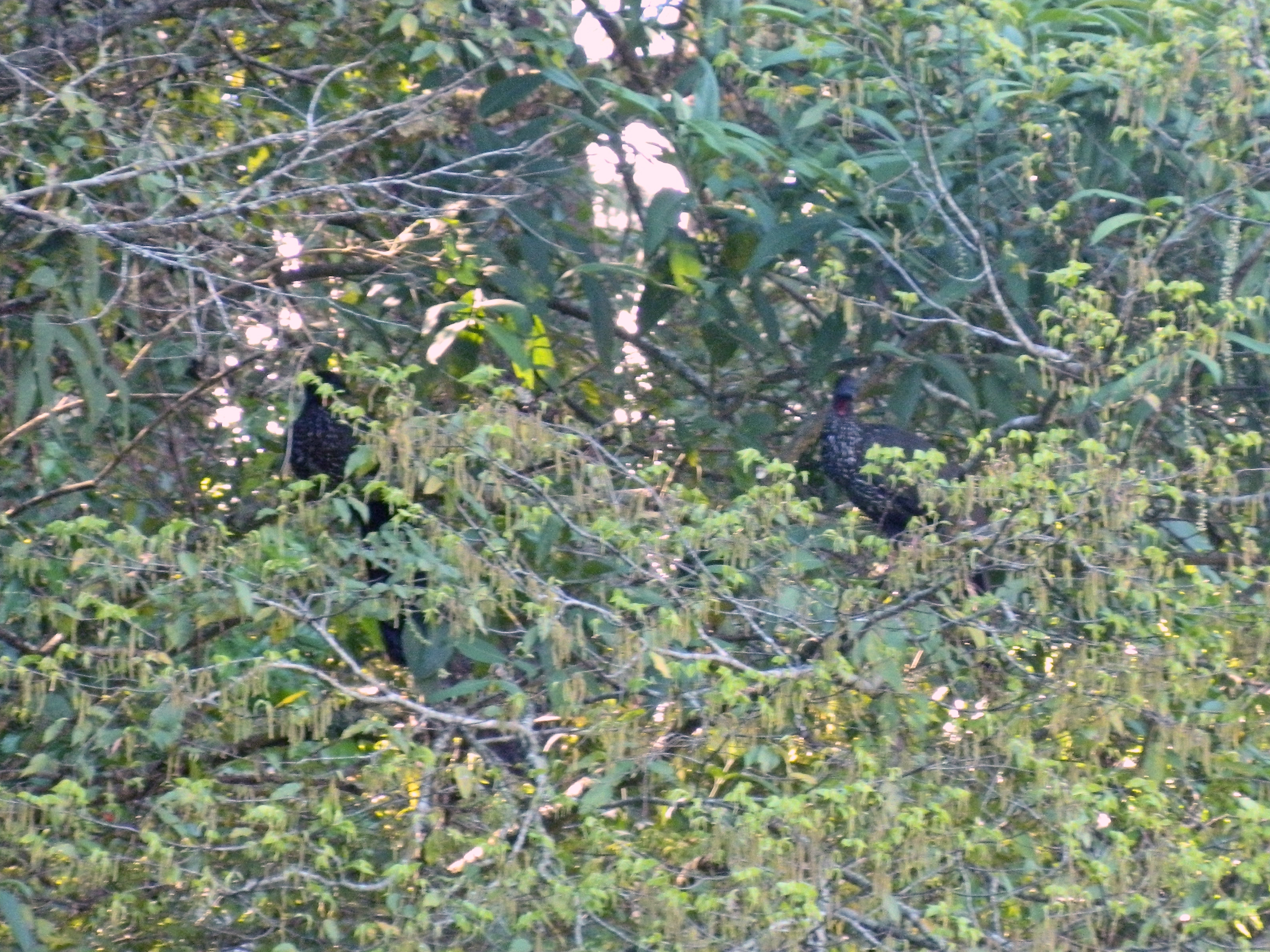 La Reserva de la Biósfera "Sierra de Manantlán" presenta una gran diversidad de aves, estás aves son conocidas como "Chonchos" (Penelope purpurascens) y son una de las aves más grandes de la Reserva.